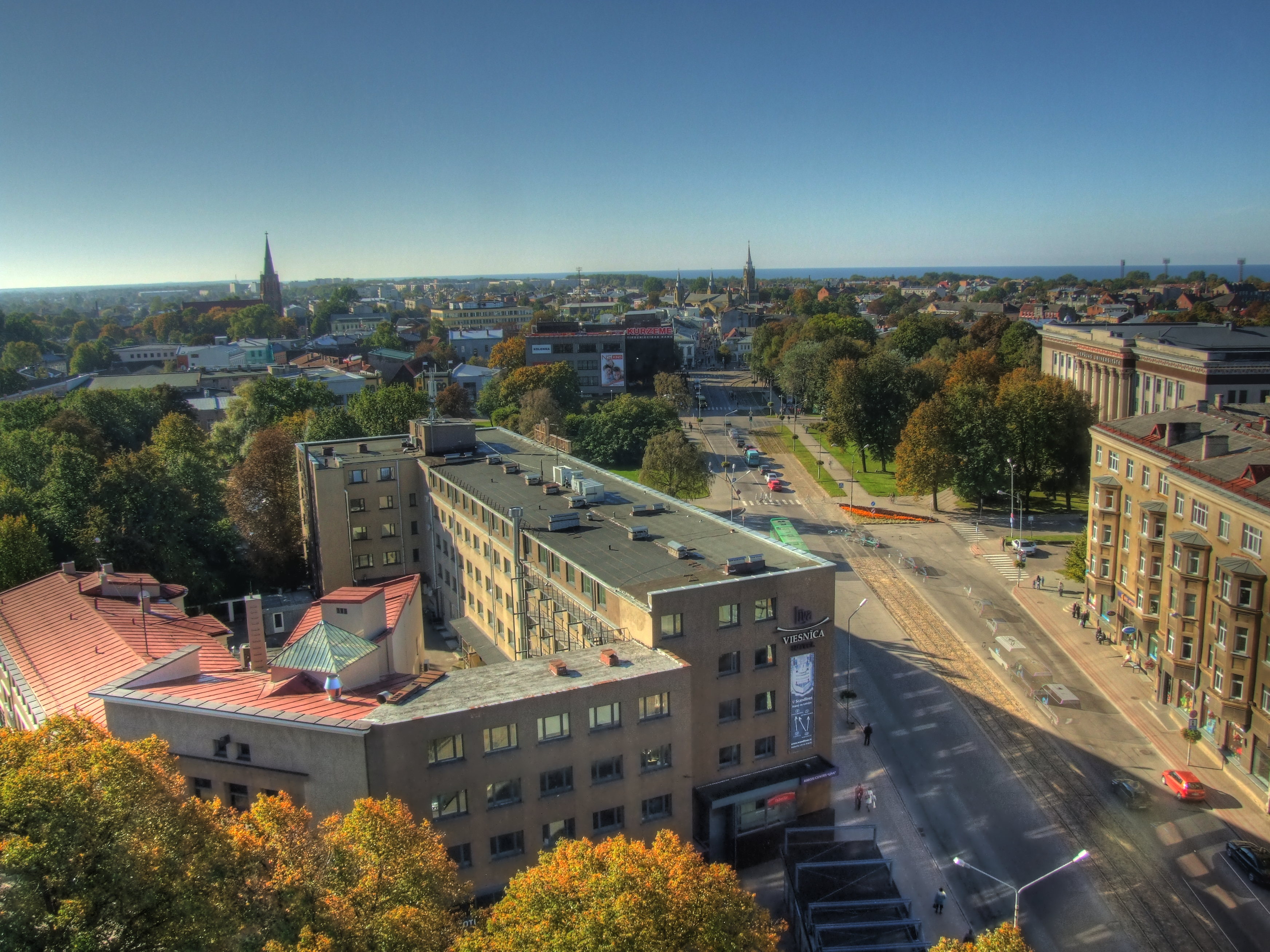 Liepaja (Libau) from Holy Trinity Church